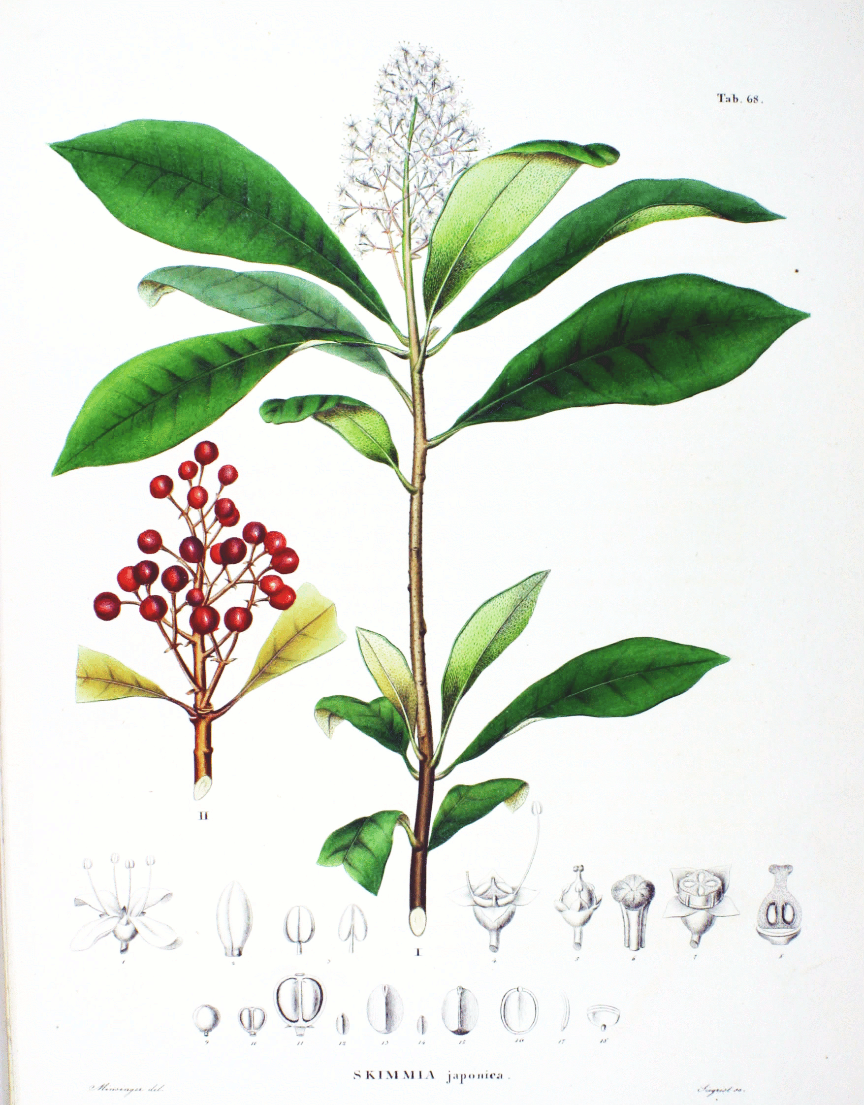 Plate from book